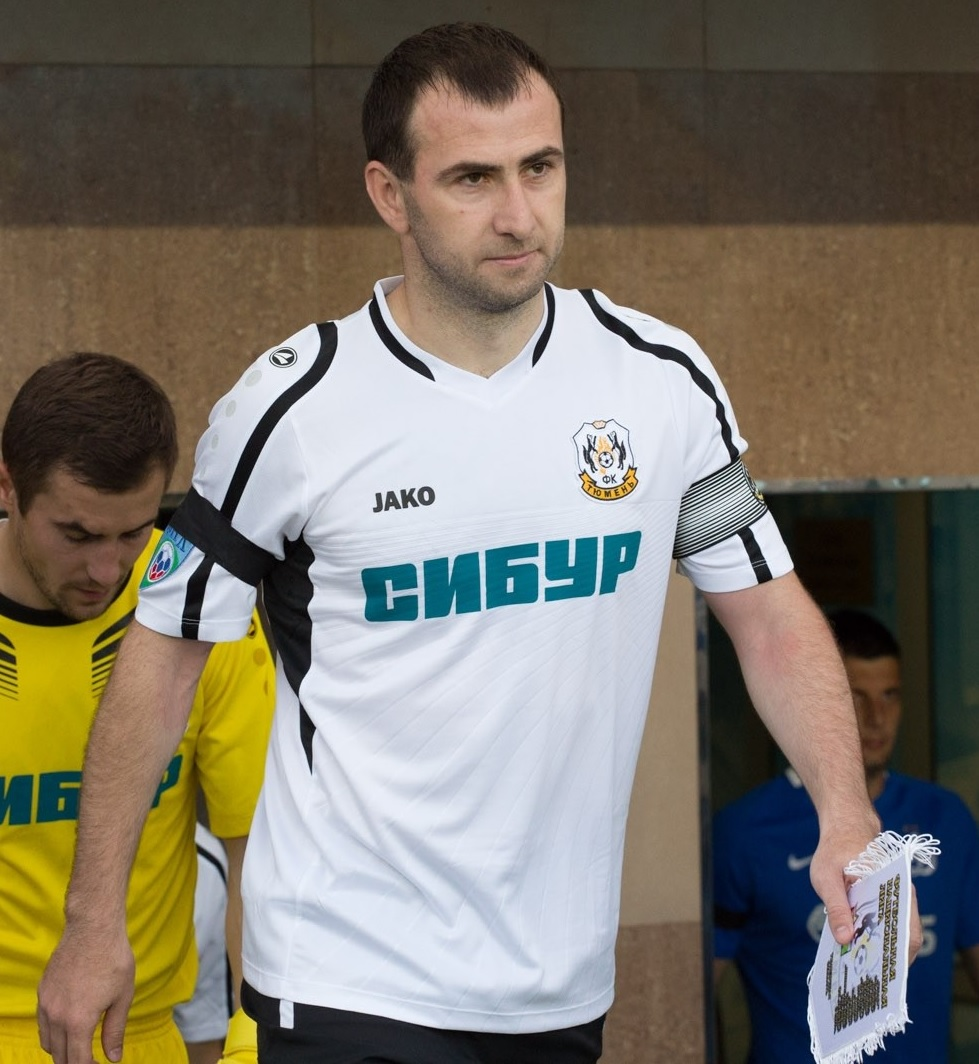 Khasan Mamtov with FC Tyumen in a game against FC Dynamo Moscow.